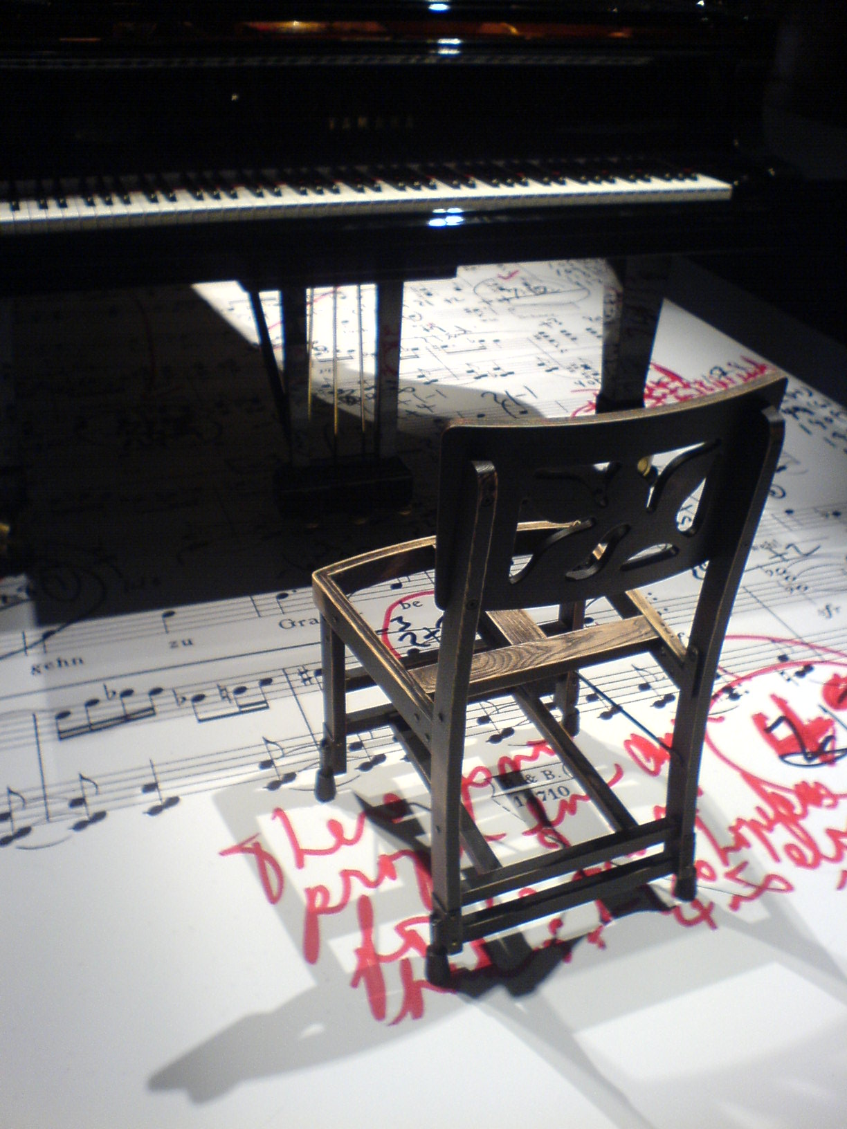 Glenn Gould's chair in the stand organized during the fair Salon du Meuble in Paris